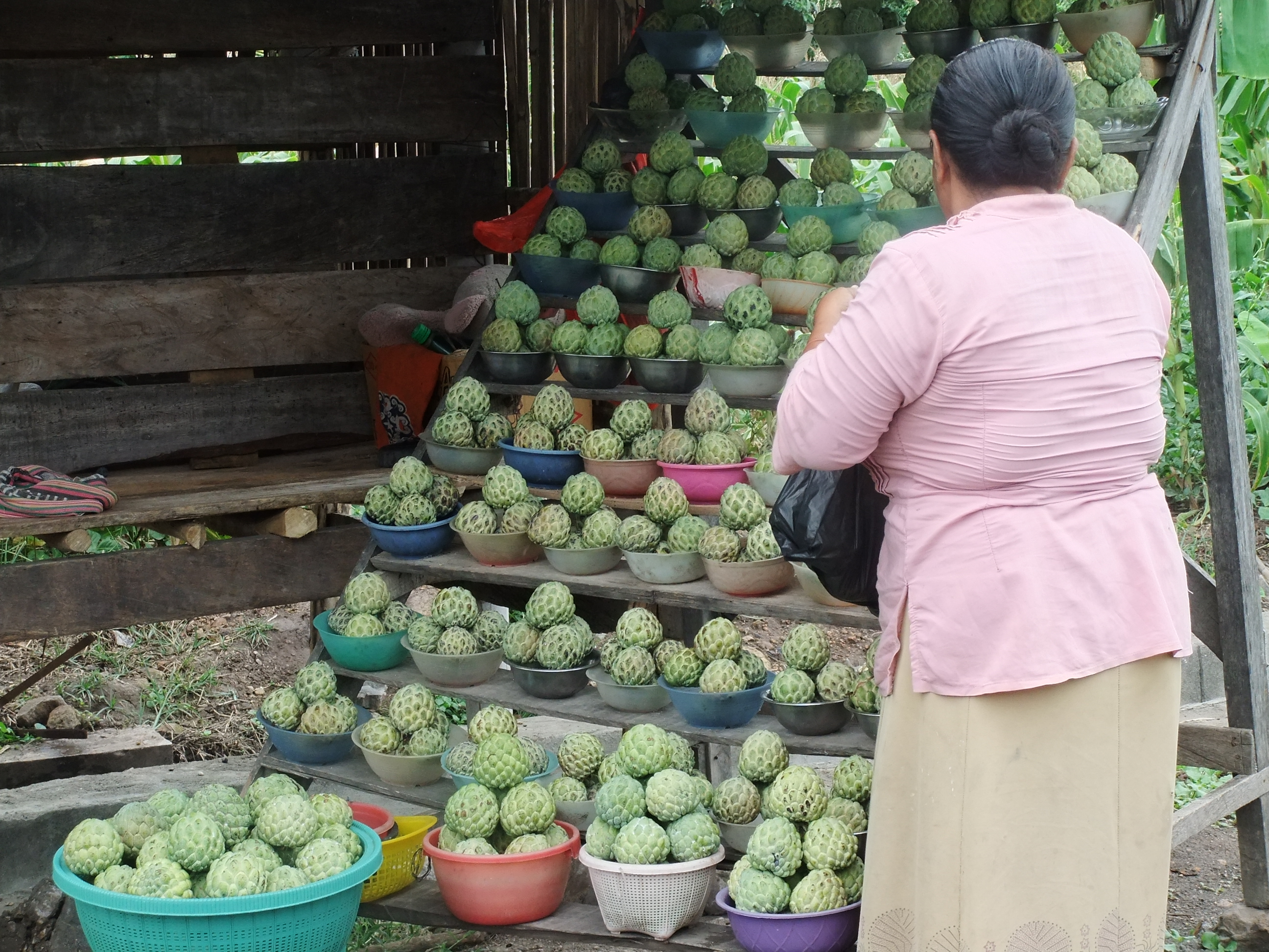 Annona squamosa in Bulukumba, South Sulawesi